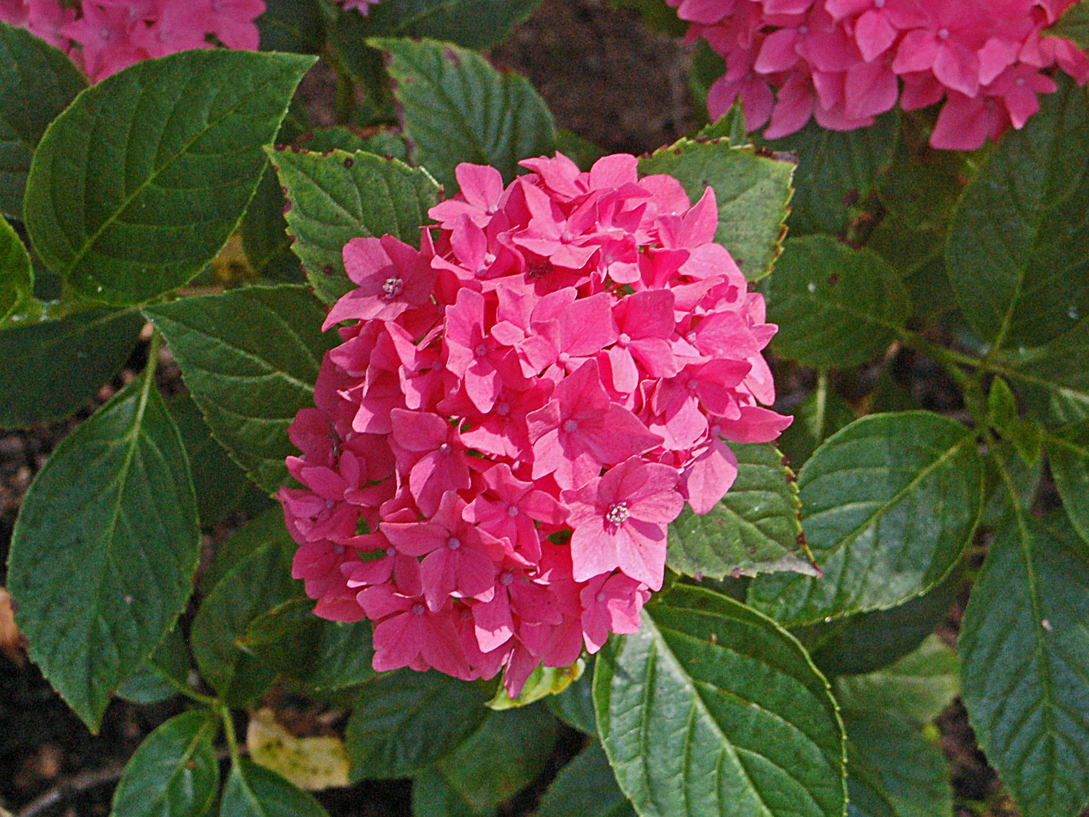 Hydrangea macrophylla "Pia" at the park of Villa Serra, Genova, Italy